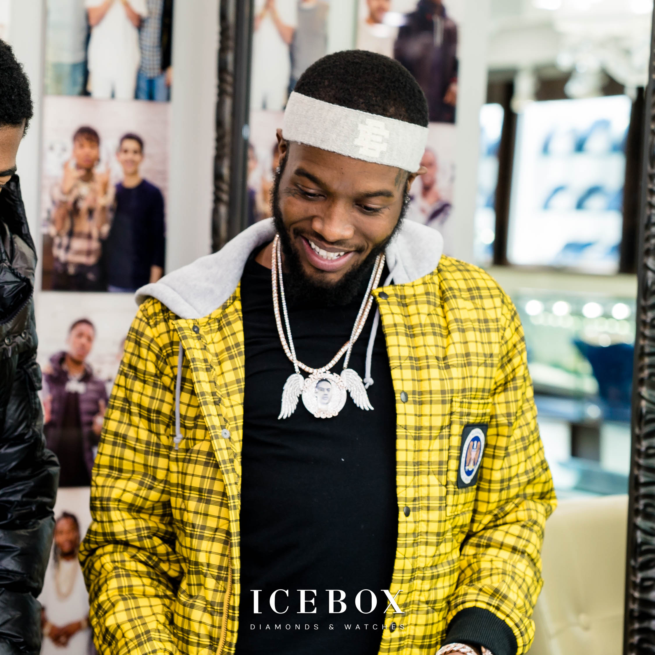 Shy Glizzy Icebox 2018